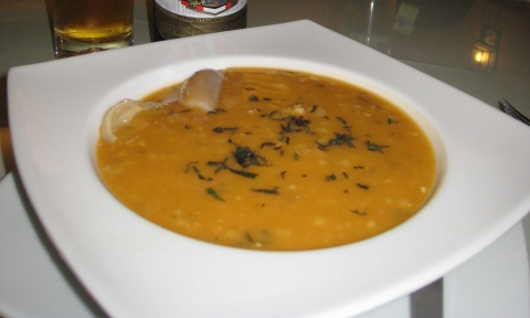 I had soup for lunch. They make this soup on Mondays only. Trujillo - Peru